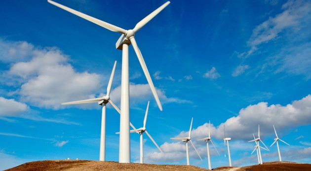 moinho de vento